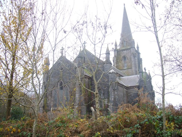 The derelict church of St.John the Baptist in Slebech This sizeable but abandoned church with its impressive spire is to be found in the village of Slebech which appears to comprise of three inhabited properties, a few derelict buildings,a tiny retail park and a BMW dealership.